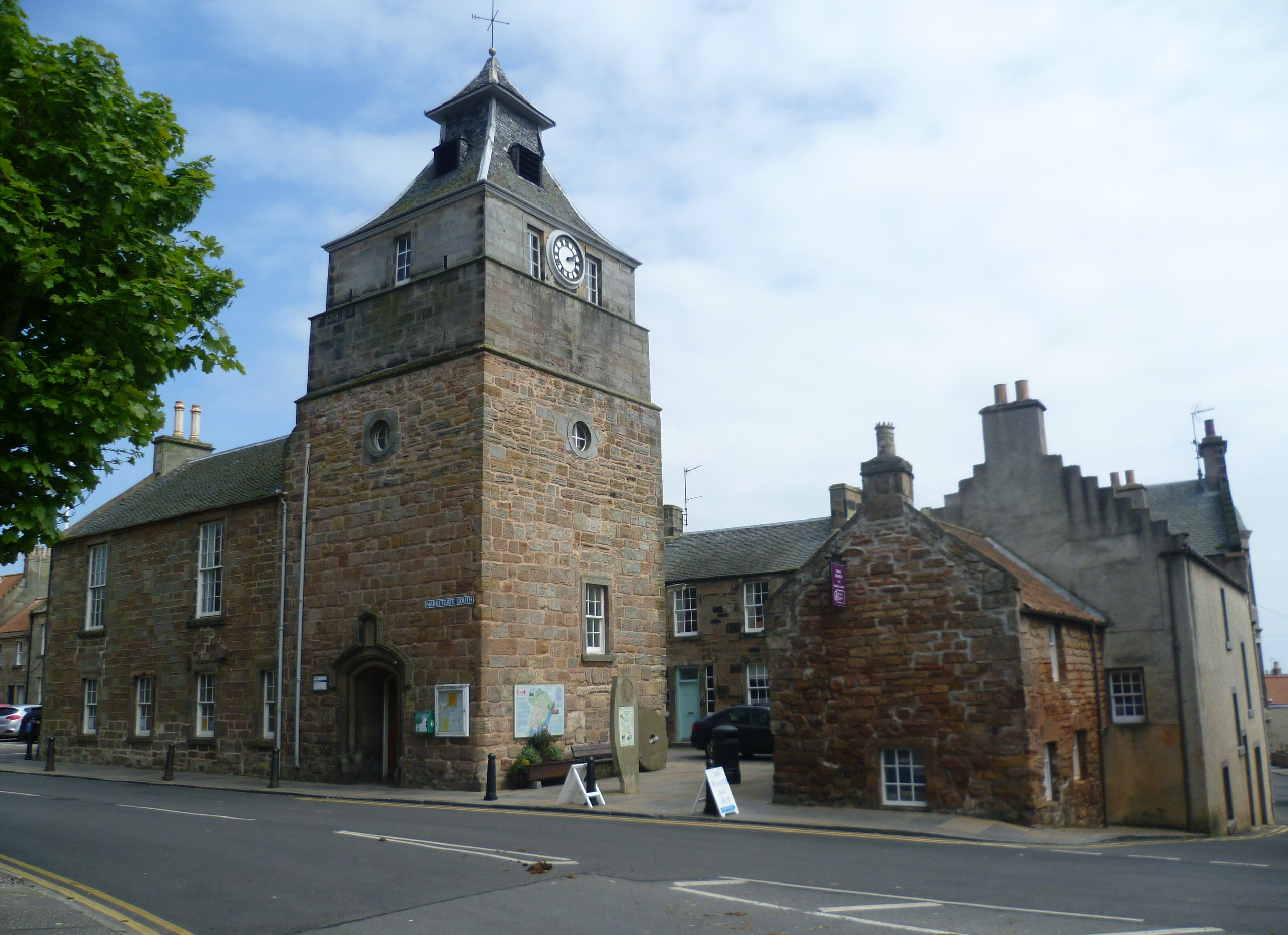 Crail Tolbooth (left), Fife Scotland